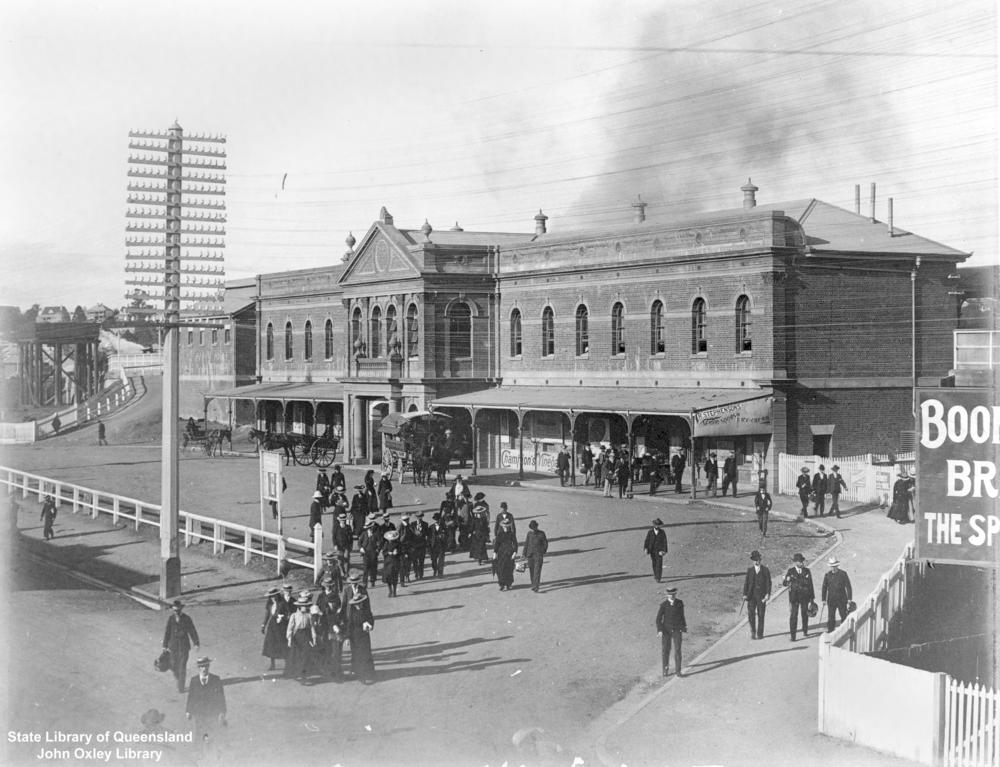 Railway Station in Melbourne Street at South Brisbane, Queensland, 1902. View of the Railway Station in Melbourne Street at South Brisbane. Groups of people are walking away from the entrance.